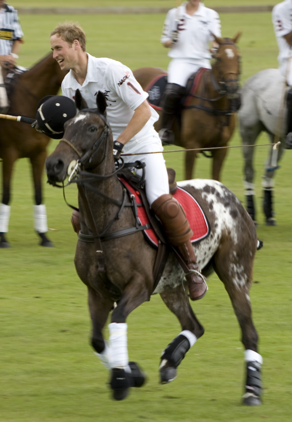 Prince William at a Polo match in Sandhurst, July 2007.